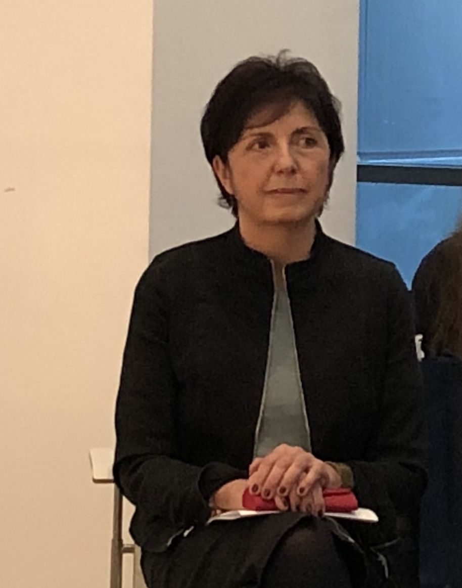 Teodora Dimova - NBU Feb 2020